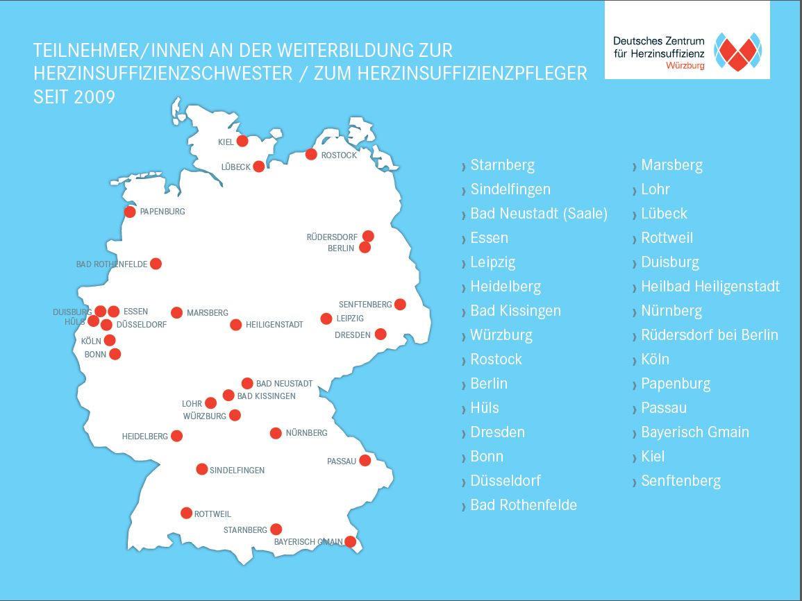 Heart Failure Specialist Nurses from CHFC.